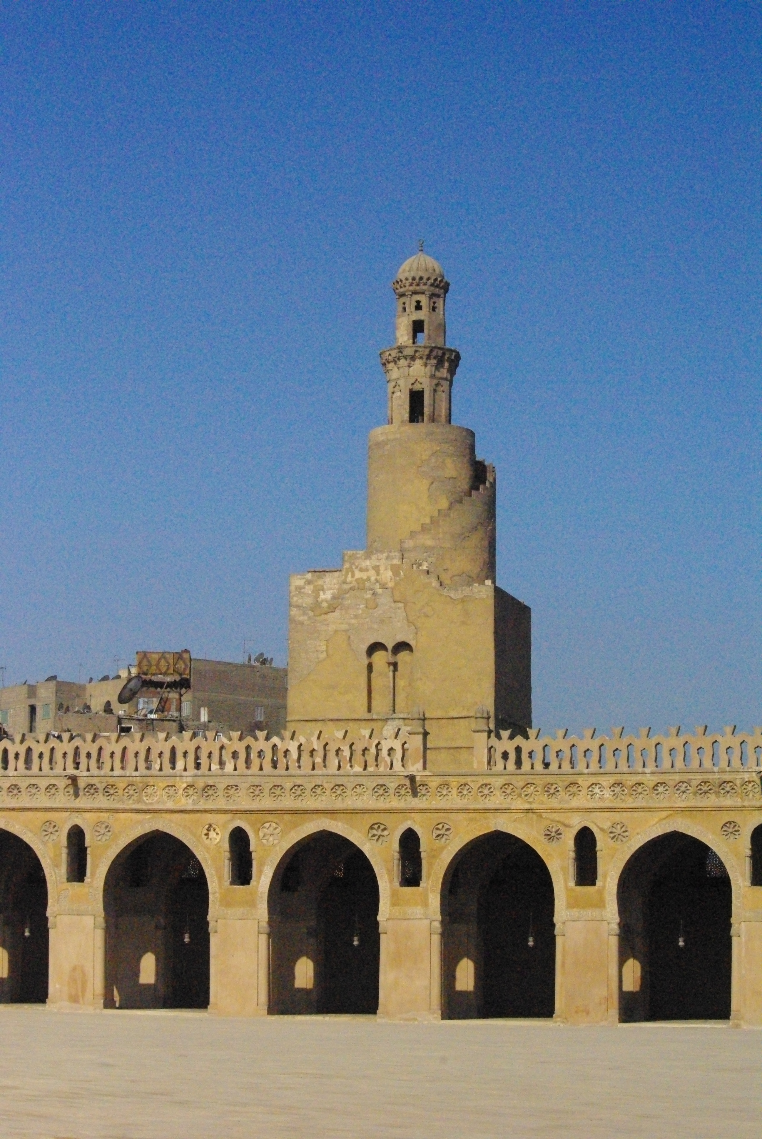 Minaret of the Ibn Tulun mosque, Cairo, Egypt.